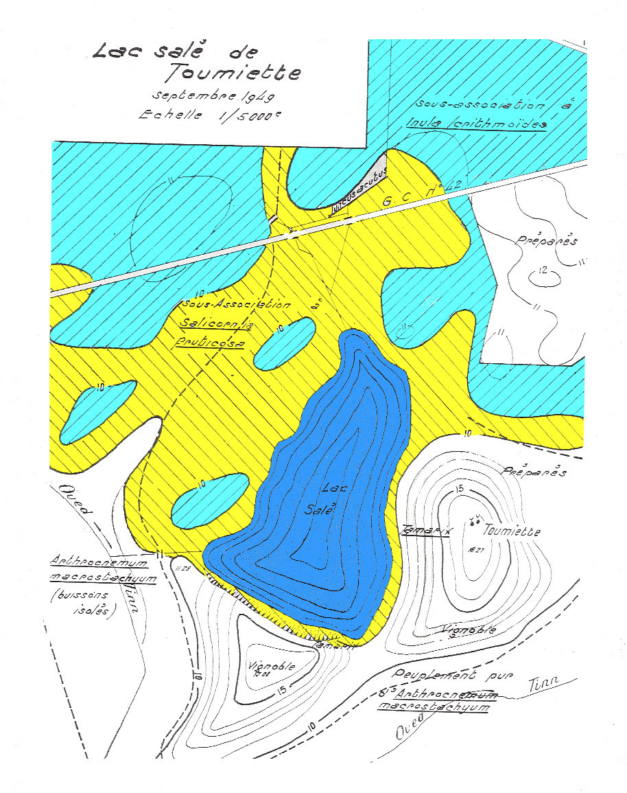 Schematic representation of the zonation of the vegetation on the lakesides of Toumiette (Oranie, Algeria; according to Simonneau, 1952).